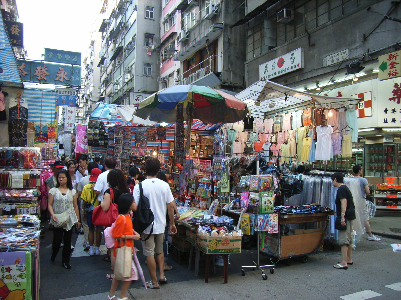 Tung Choi Street, Mong Kok, Kowloon. Picture taken at the intersection with Soy Street.